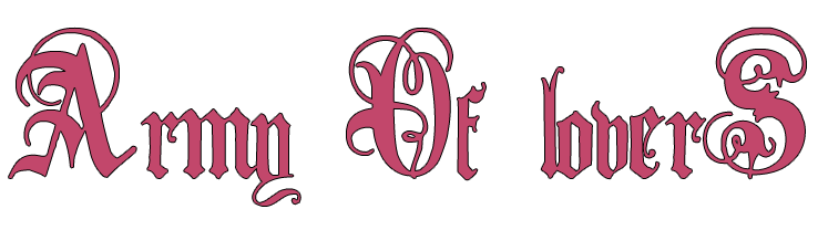 Wordmark of The Beatles, originally painted on cover of music album "The Gods of Earth and Heaven" (by AoL)